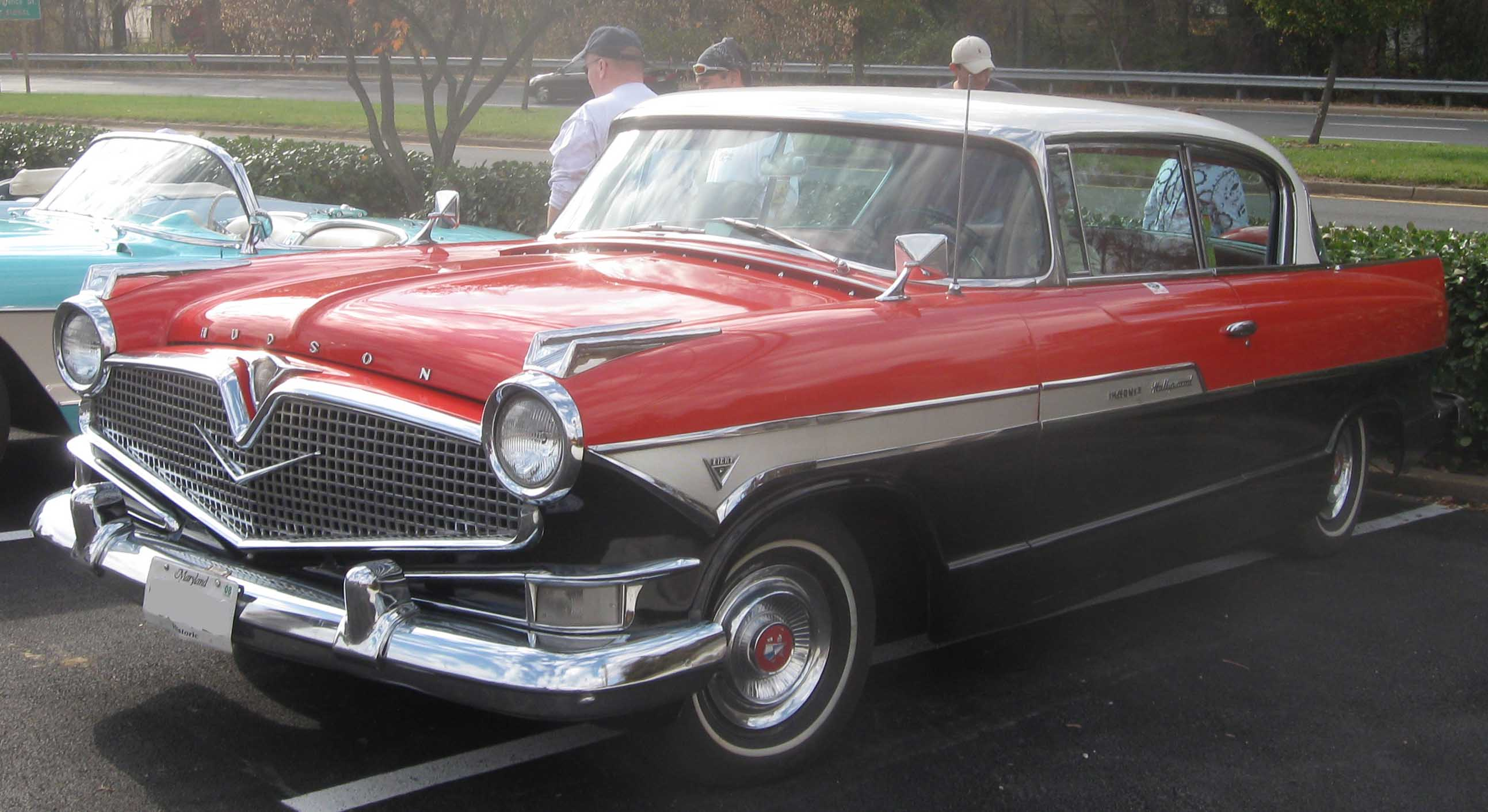 1957 Hudson Hornet V8 Super Hollywood Hardtop - photographed in Aspen Hill, Maryland, USA.